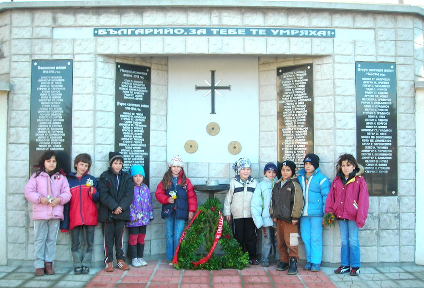 War memorial in village Sadina, Bulgaria